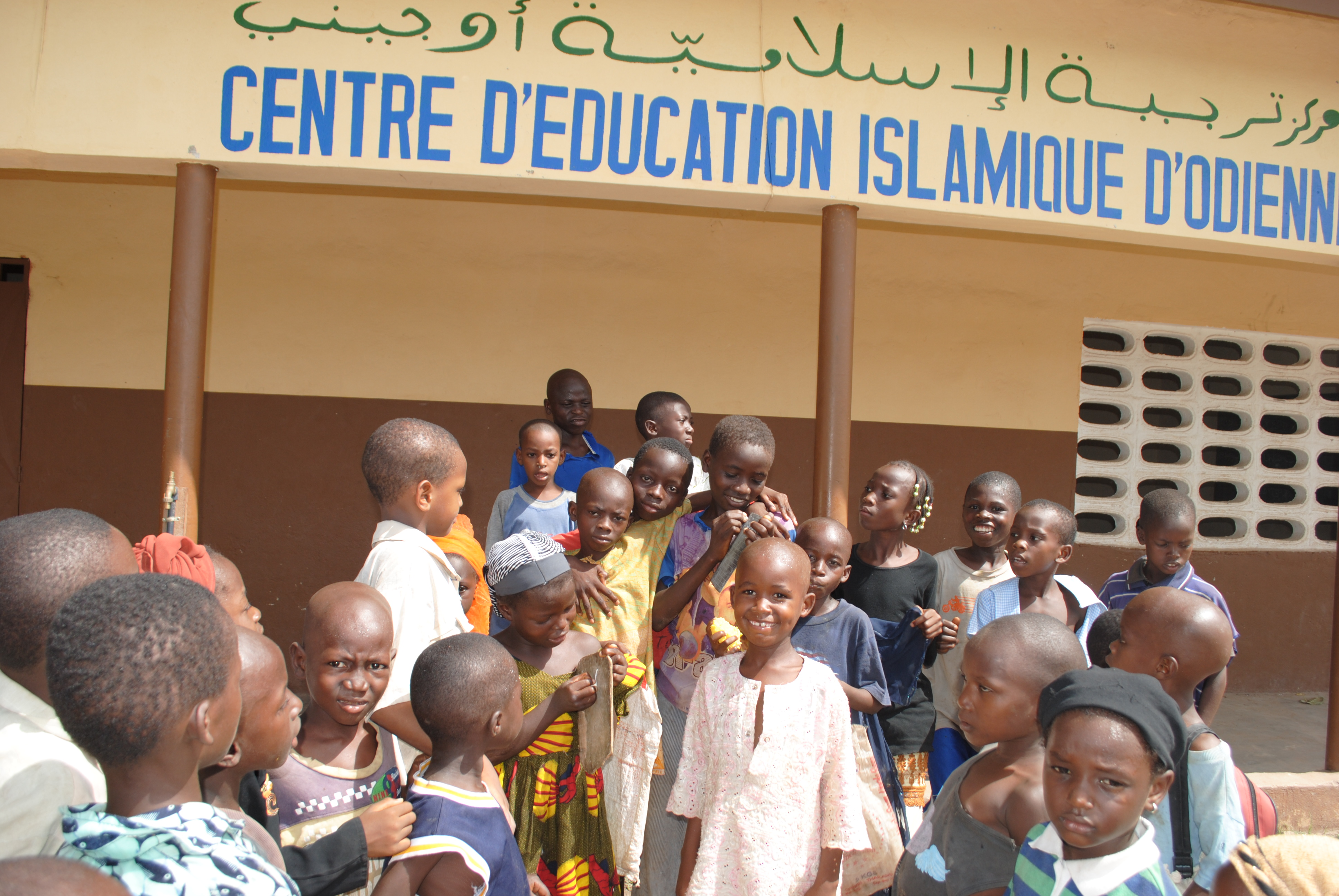 Students of the Centre d'éducation islamique d'Odienné ("Odienné Islamic Education Centre", مركز تربية الإسلامية أوجيني "Markaz Tarbiyyah al-Islamiyyah Odienné"). Ivory Coast